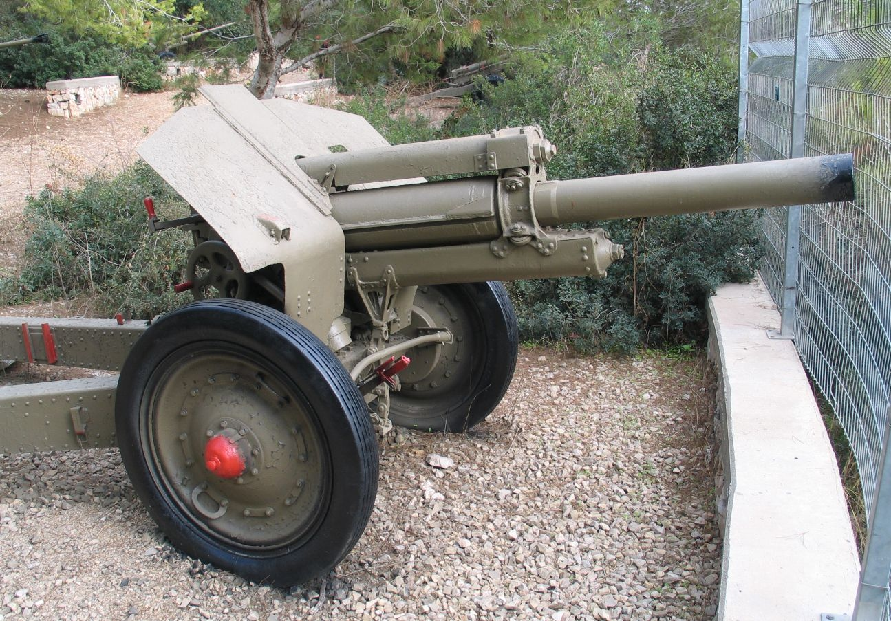 Description: Soviet M-38 122 mm howitzer in Beyt ha-Totchan, Zichron Yaakov, Israel. 2005. Source: Photo by me, User:Bukvoed.